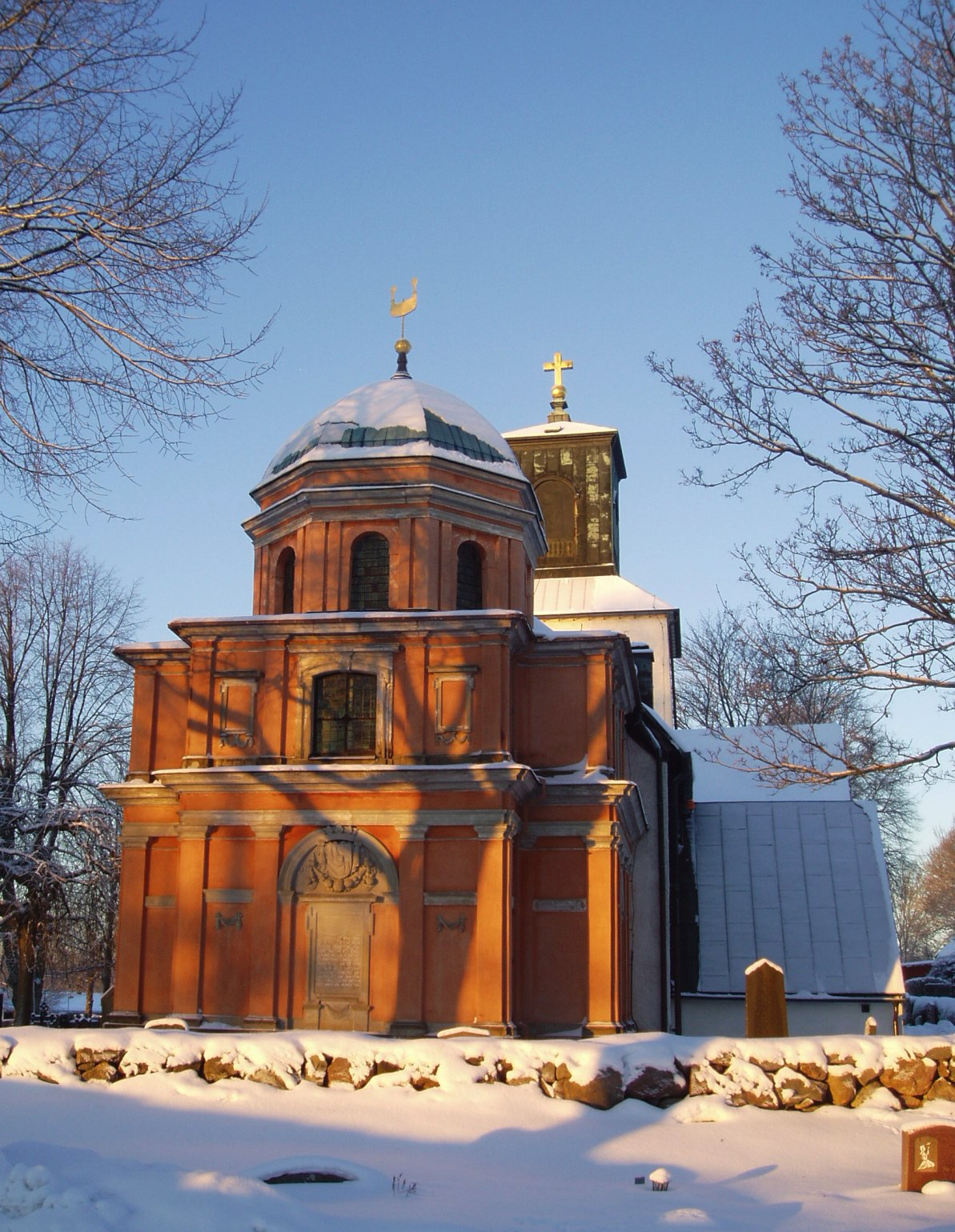 Spånga church (Bondeska gravkoret)